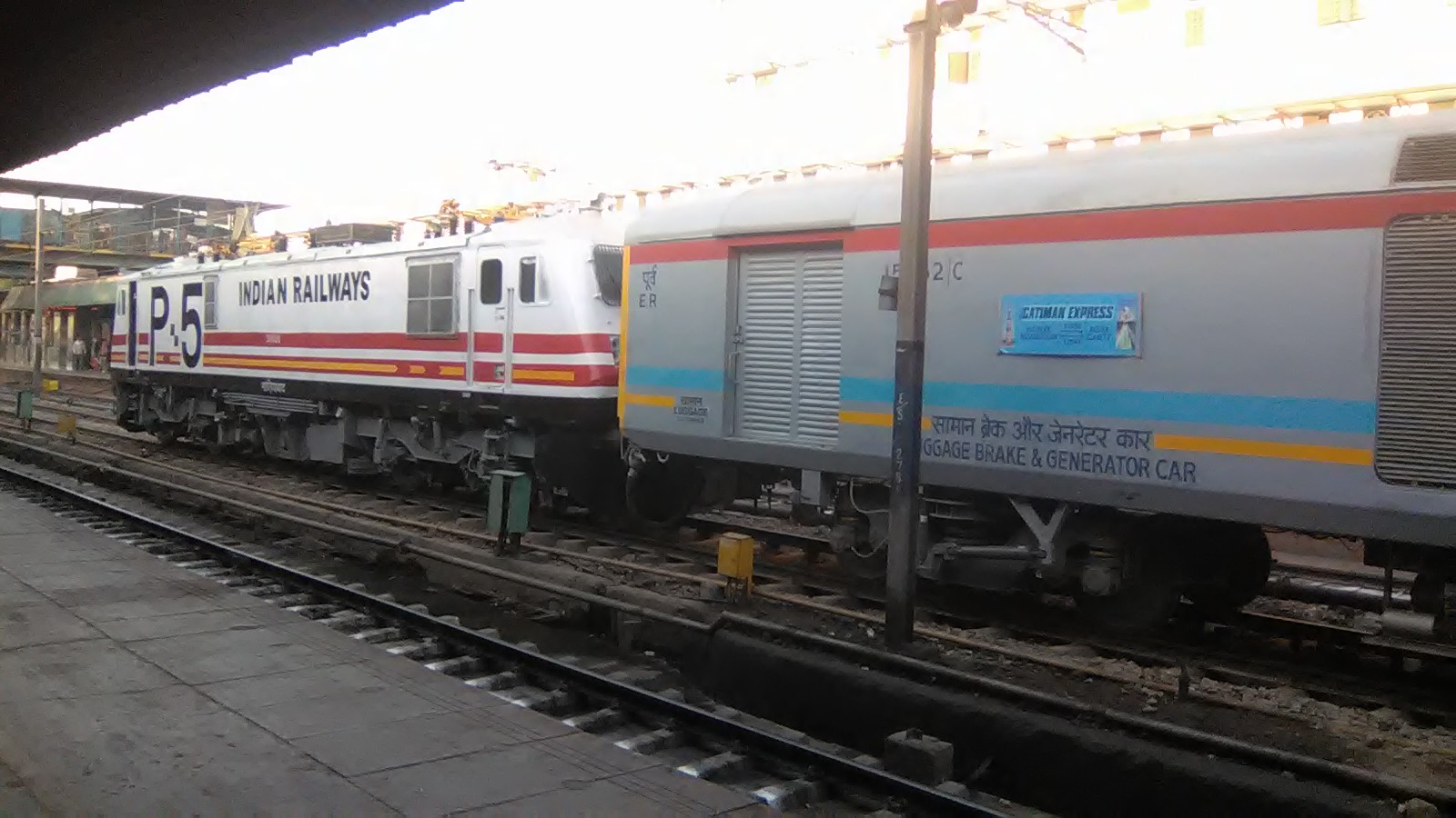 A WAP 5 hauled Gatimaan express at New Delhi Railway Station